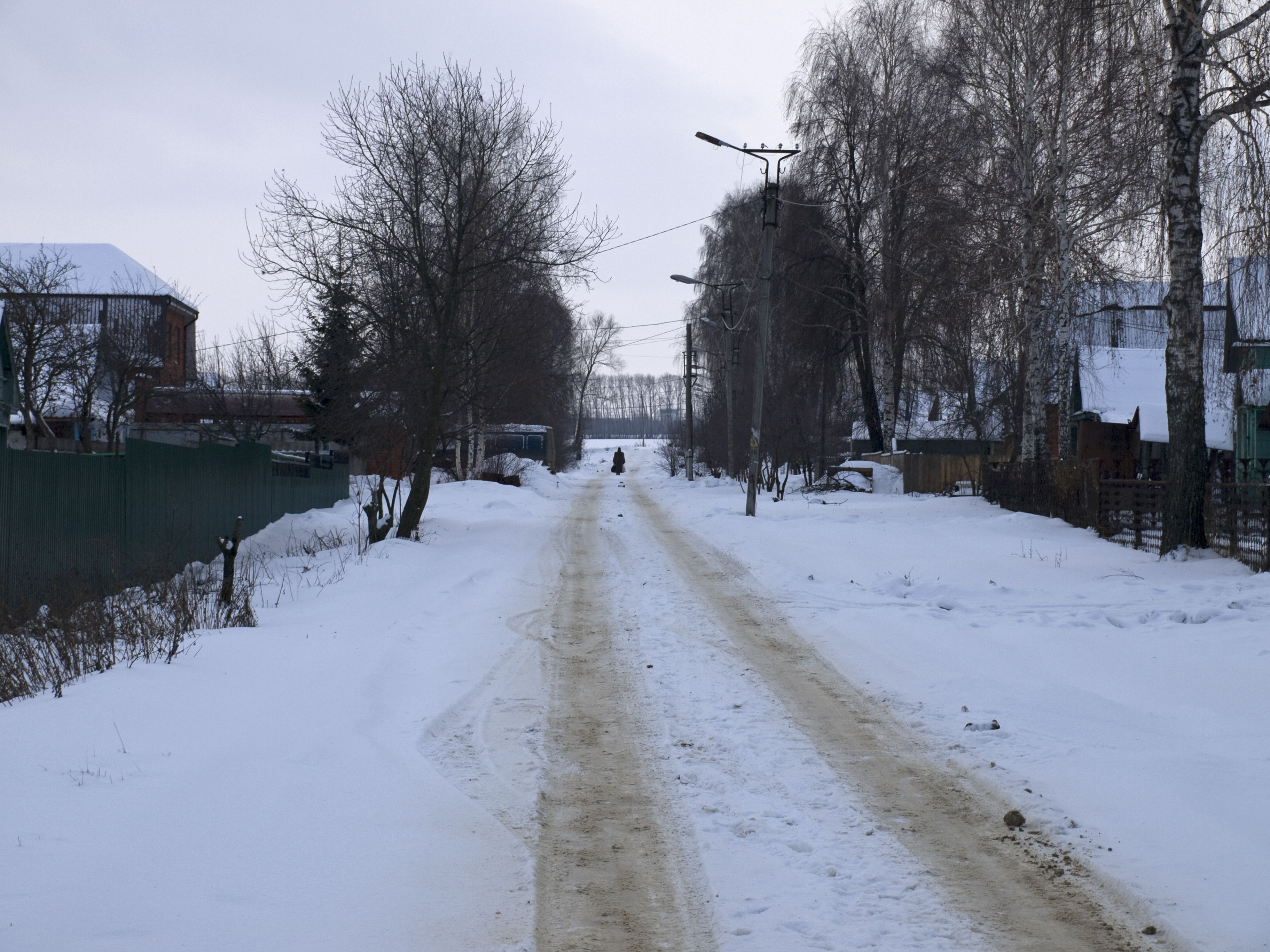 Kolkhoznaya ulitsa, Lukhovka